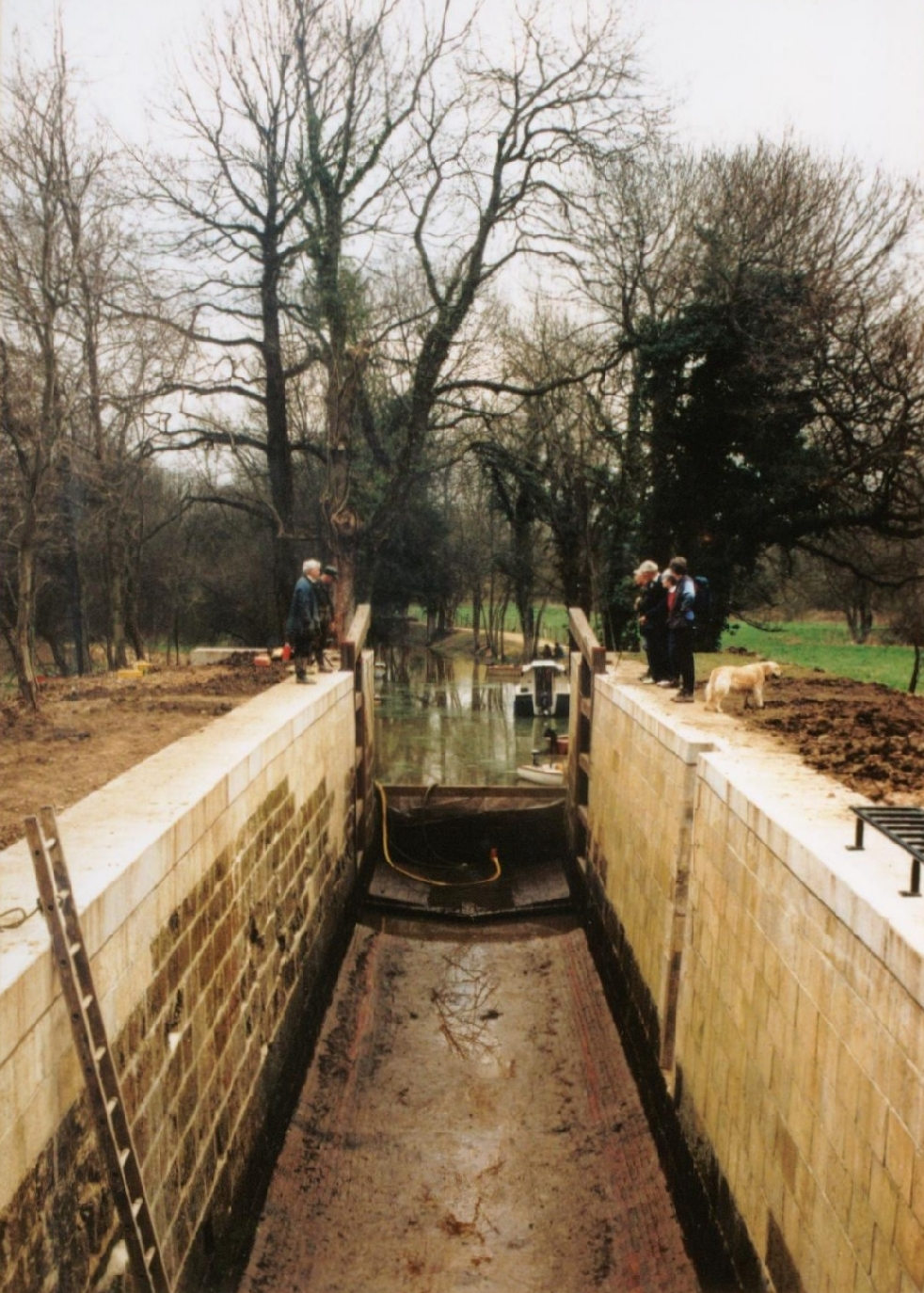 lock on the wey and arun under restoration. some time in the 90s